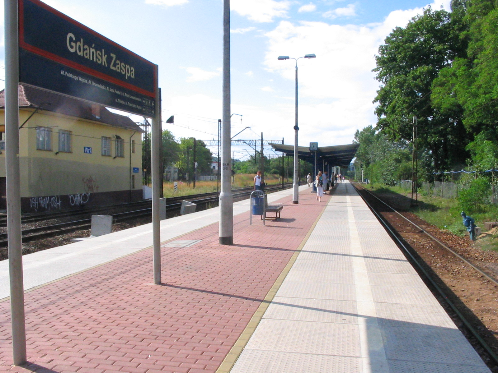 SKM stop @ Gdańsk Zaspa